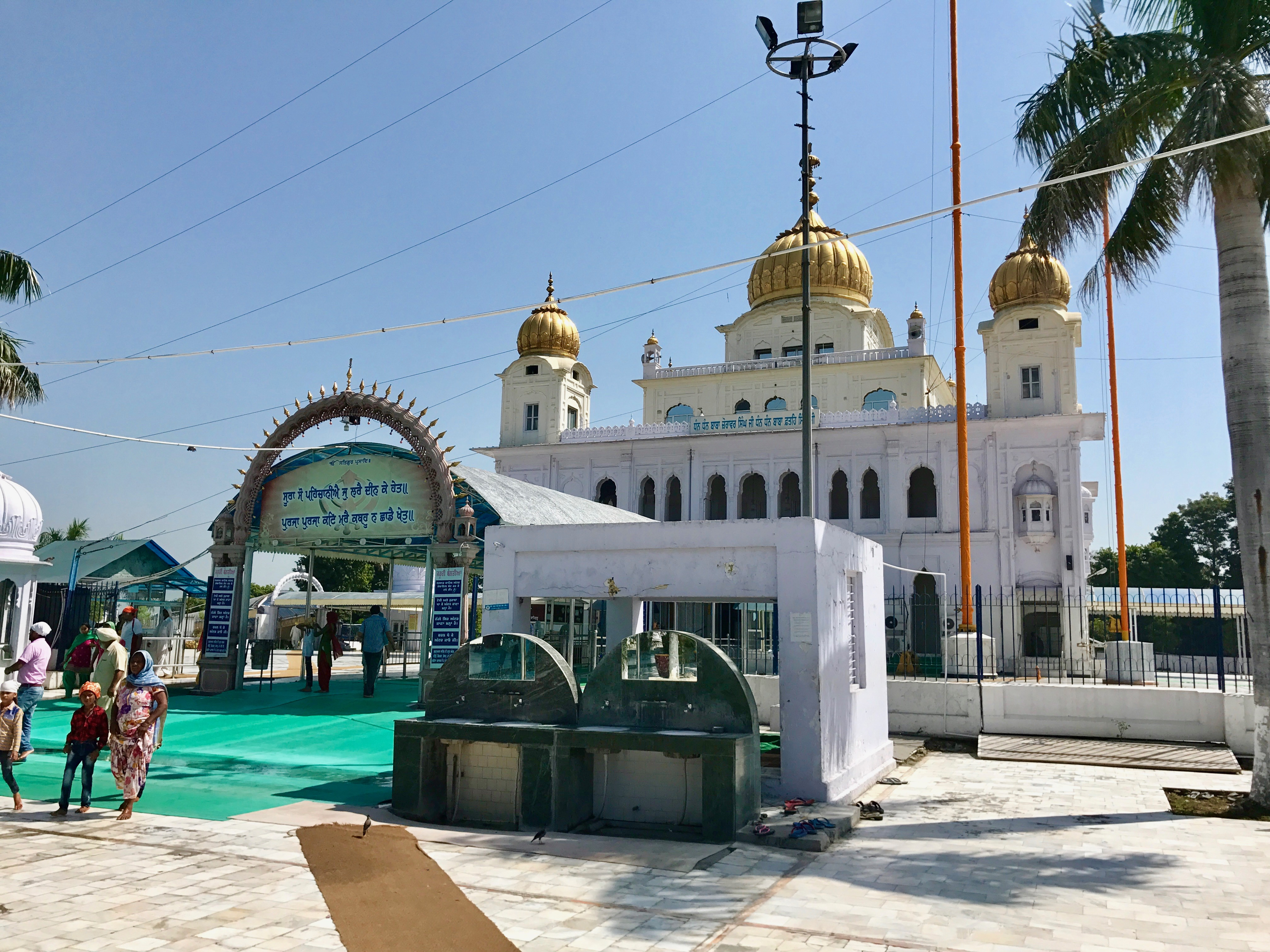 Fatehgarh Sahib Gurdwara is located in the town of Fatehgarh Sahib. Both are named after Fateh Singh, the 7 year old son of Guru Gobind Singh who was seized and buried alive along with his 9 year old brother Zoravar Singh, by the Mughal Army under the orders of commander Wazir Khan during the ongoing Muslim-Sikh war of early 18th century. The town experienced major historical events after the martyrdom of the sons, with repeated change of control between the Sikh and Muslim rulers. The Gurudwara has three floors. The basement level shrine was built in 1843, while the upper two levels were completed in 1955.